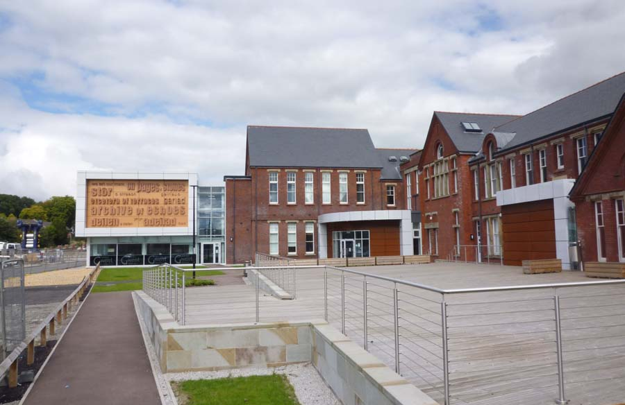 Rear view of the refurbished Ebbw Vale Steelworks offices, South Wales, now the Gwent Archives and genealogy centre